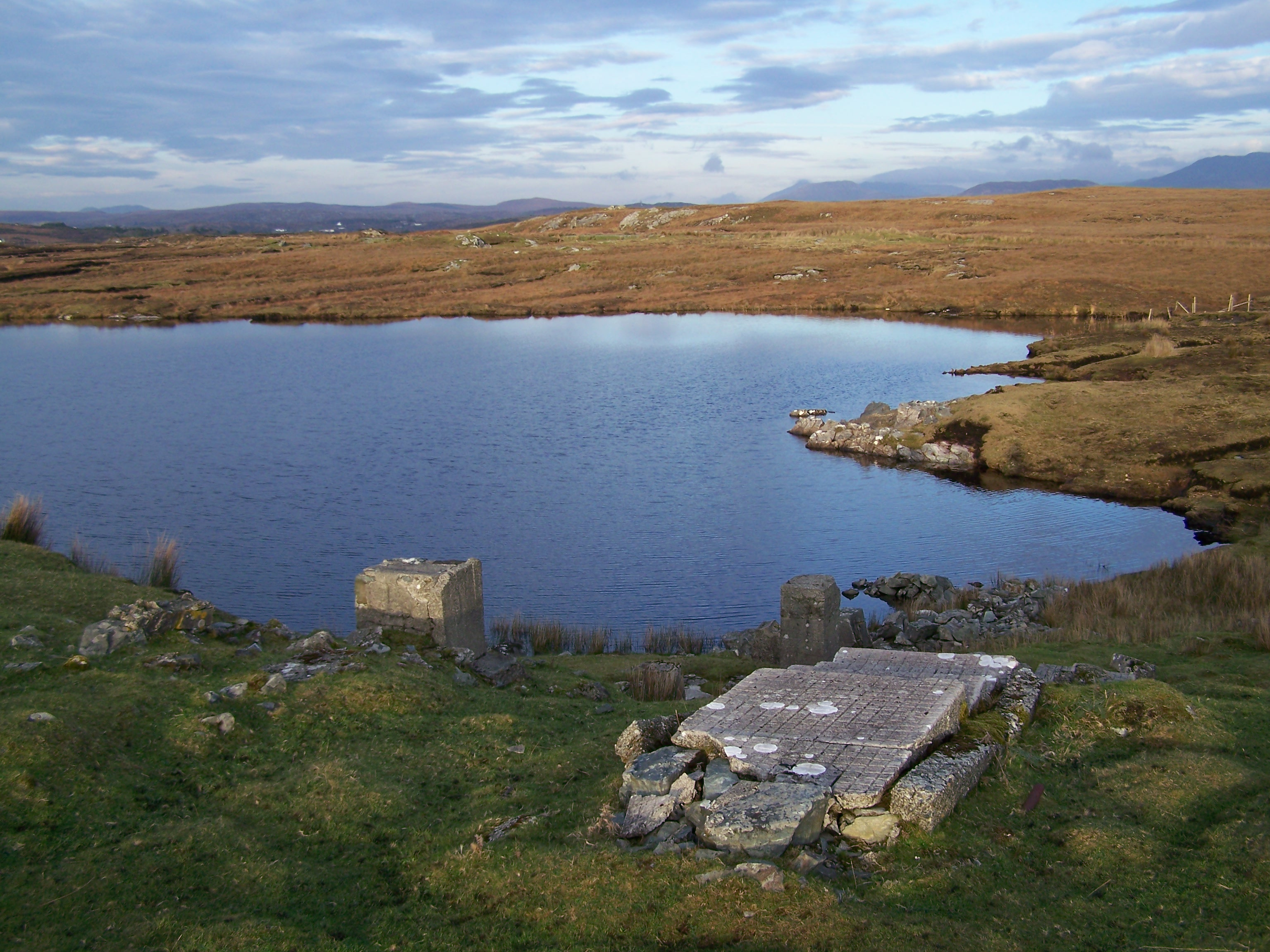 Remains of the Marconi transatlantic wireless station, situated in the Derrygimlagh bog, 6 km south of Clifden